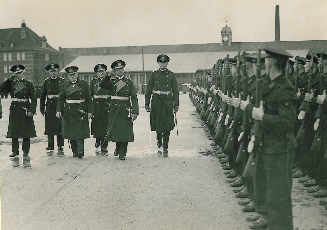 50th anniversary of the torpedo-boat-weapon in Wilhelmshaven - 1937